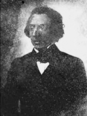 The first photograph taken to Frederic Chopin, one of the two known images of the artist.